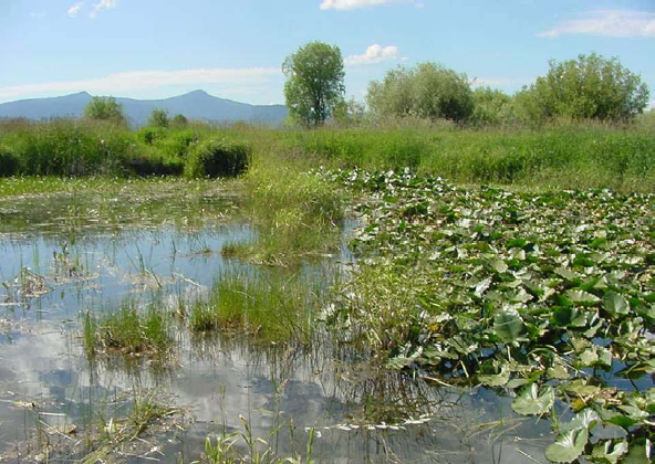 Wood River in southern Oregon